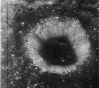 Oblique view of Respighi, on the moon. Approximate north at top.